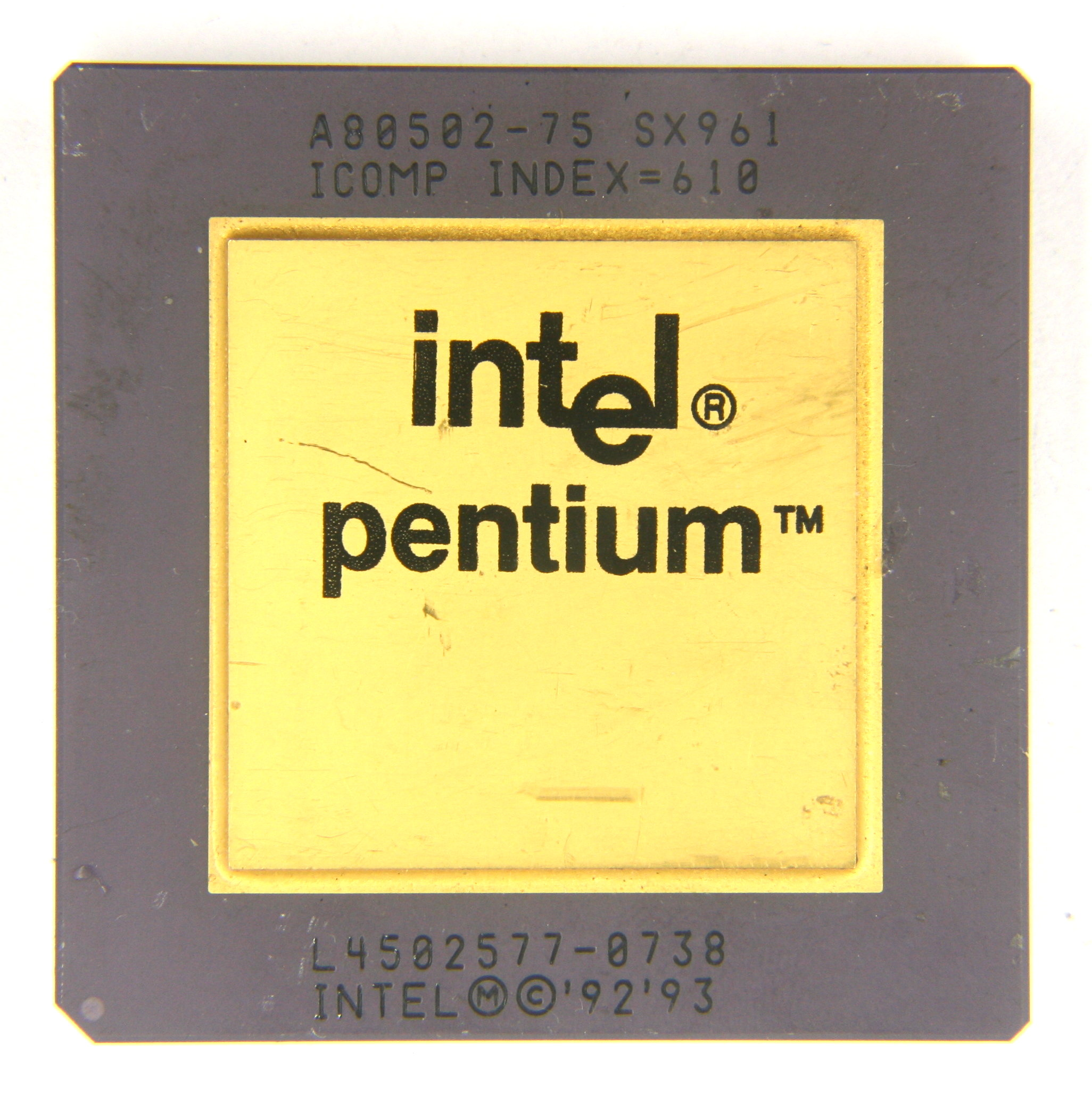 IC photo